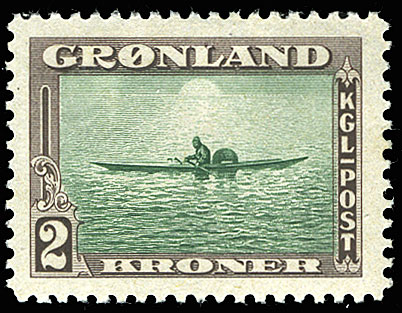 Stamp of Greenland, boat, 1945, 2kr.